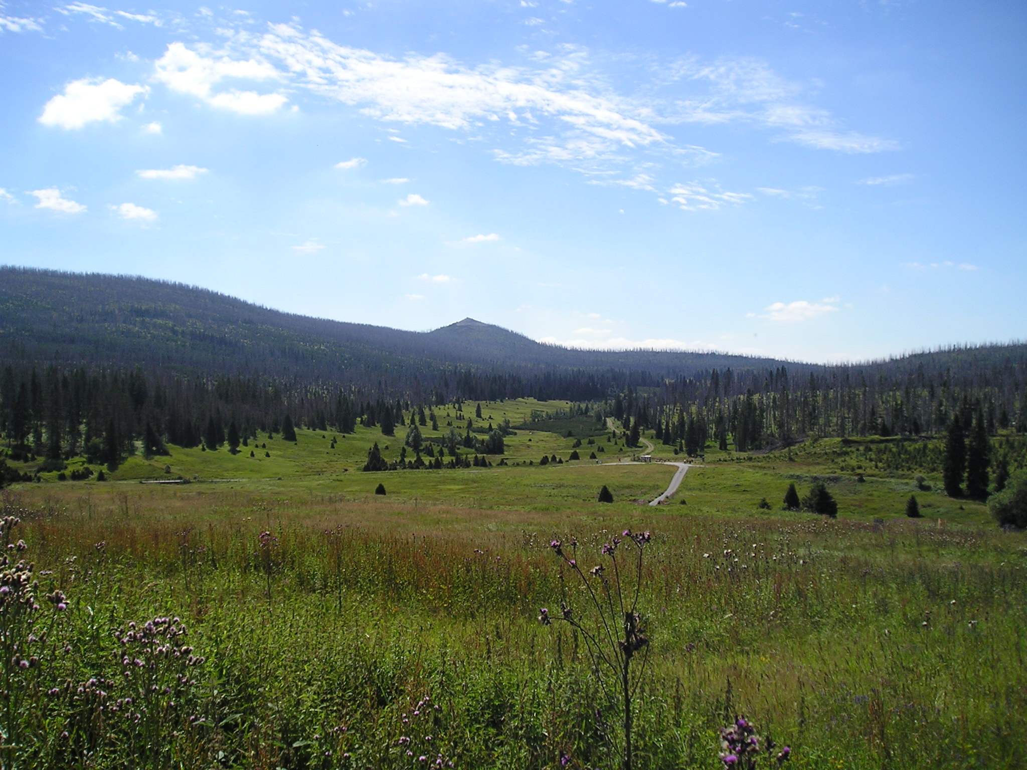 Březník valley